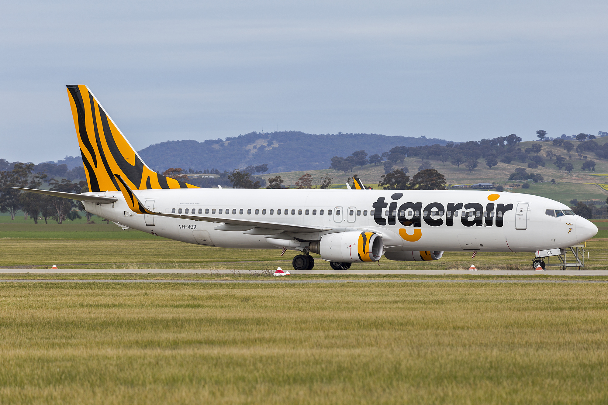 Tigerair Australia (VH-VOR) Boeing 737-8FE(WL) at Wagga Wagga Airport.